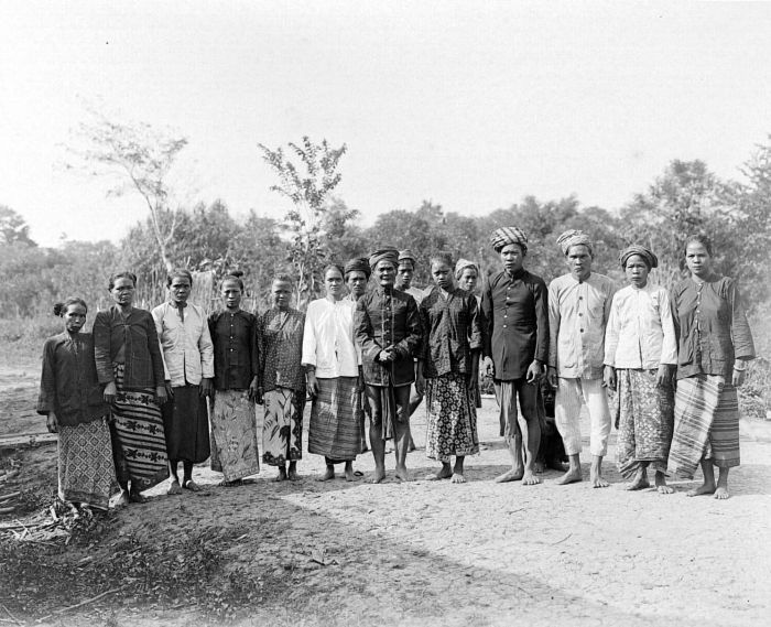 Temenggung from Kendisi with family and men of standing, Borneo.